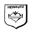 Logo Heroltice